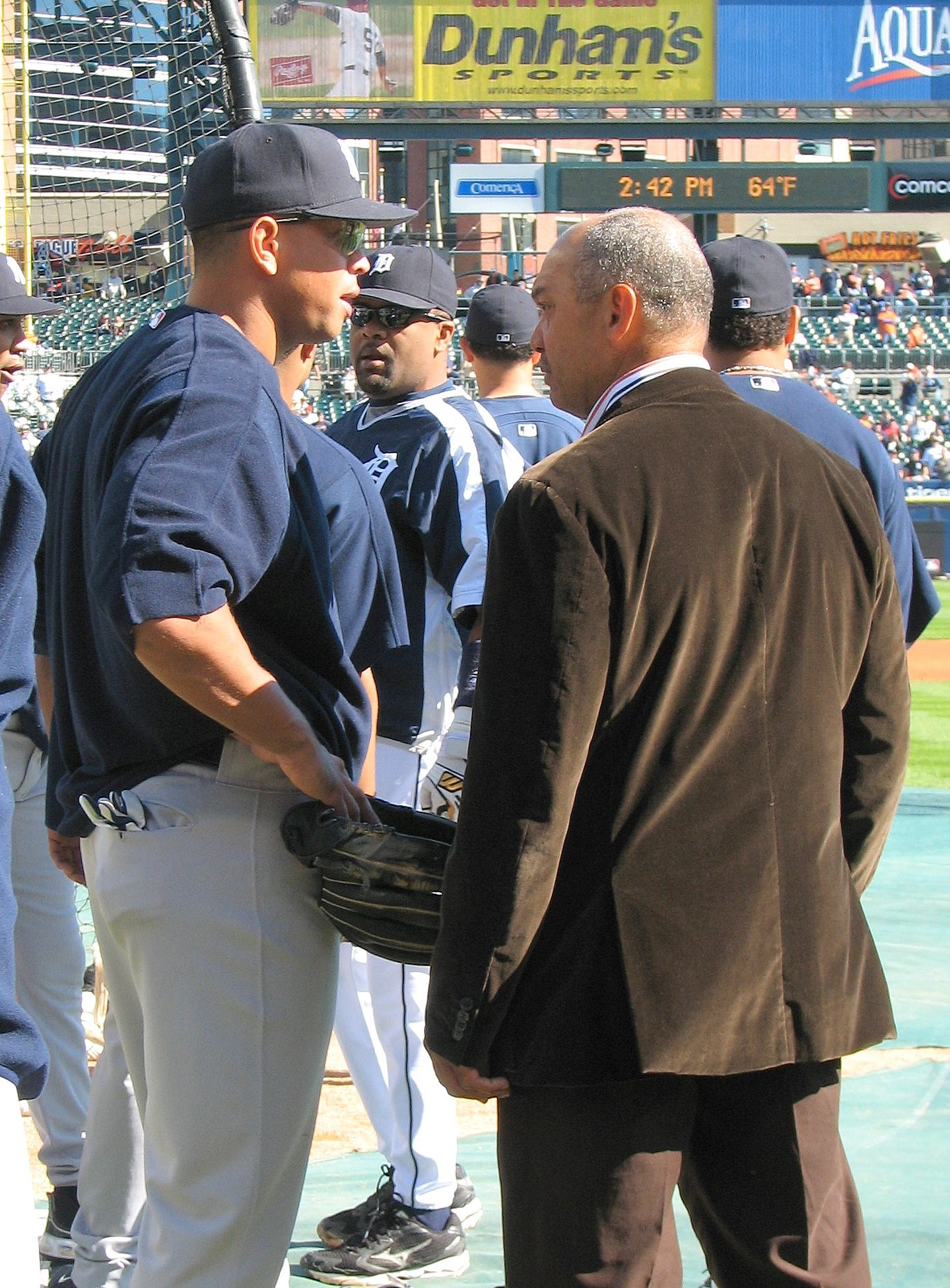 Alex Rodriguez of the New York Yankees talks with former Yankee great Reggie jackson